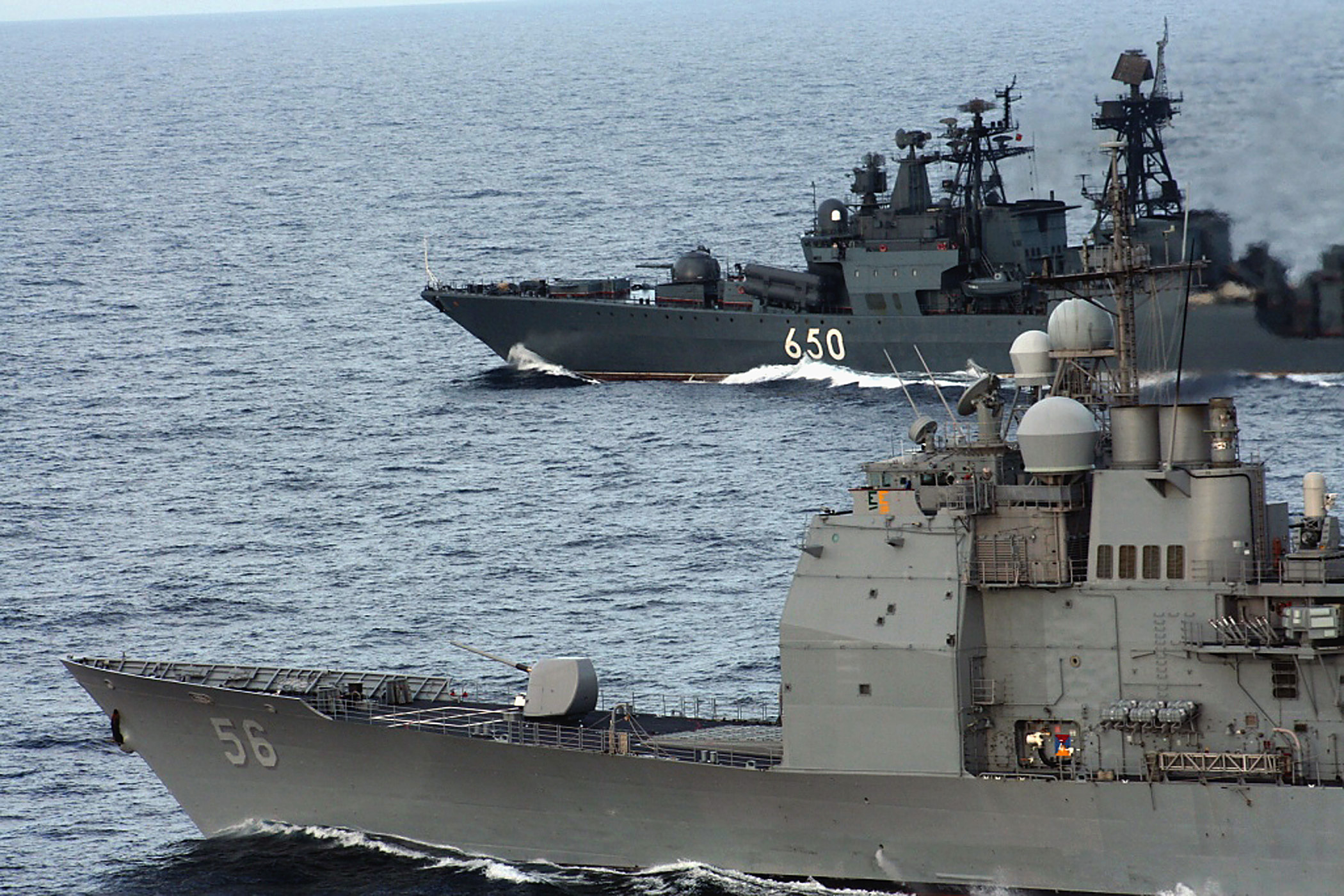 The guided missile cruiser USS San Jacinto (CG 56), foreground, and the Russian Navy destroyer Admiral Chabanenko (DDG 650) steam side by side in the Mediterranean Sea Jan. 18, 2008. The San Jacinto is operating in the 6th Fleet area of responsibility to help improve maritime safety and security. (U.S. Navy photo by Aviation Warfare System Operator 2nd Class Justin Phillips/Released)